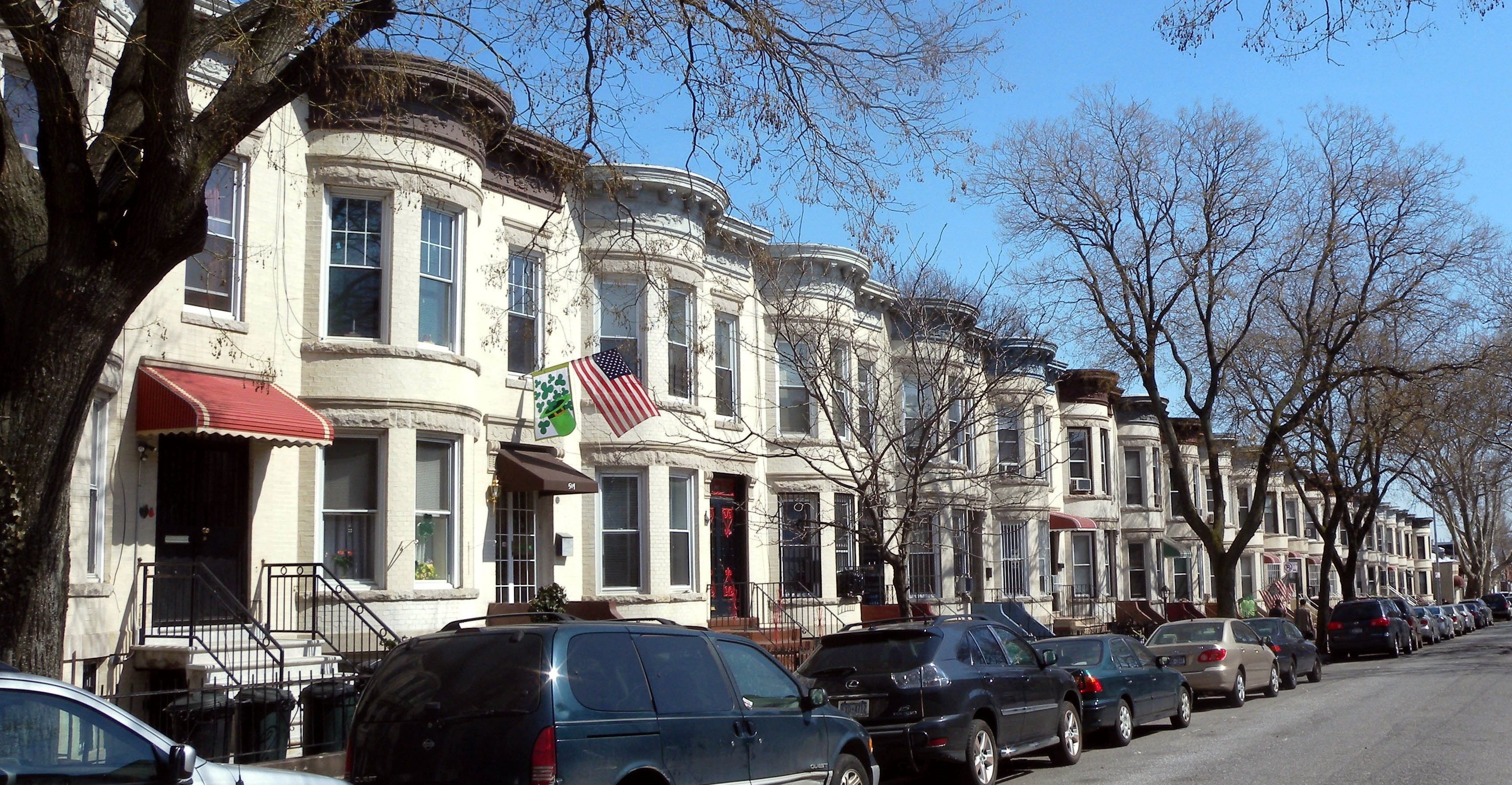 Looking east along 62d Street from 5th Avenue at rowhouses on a sunny early afternoon.